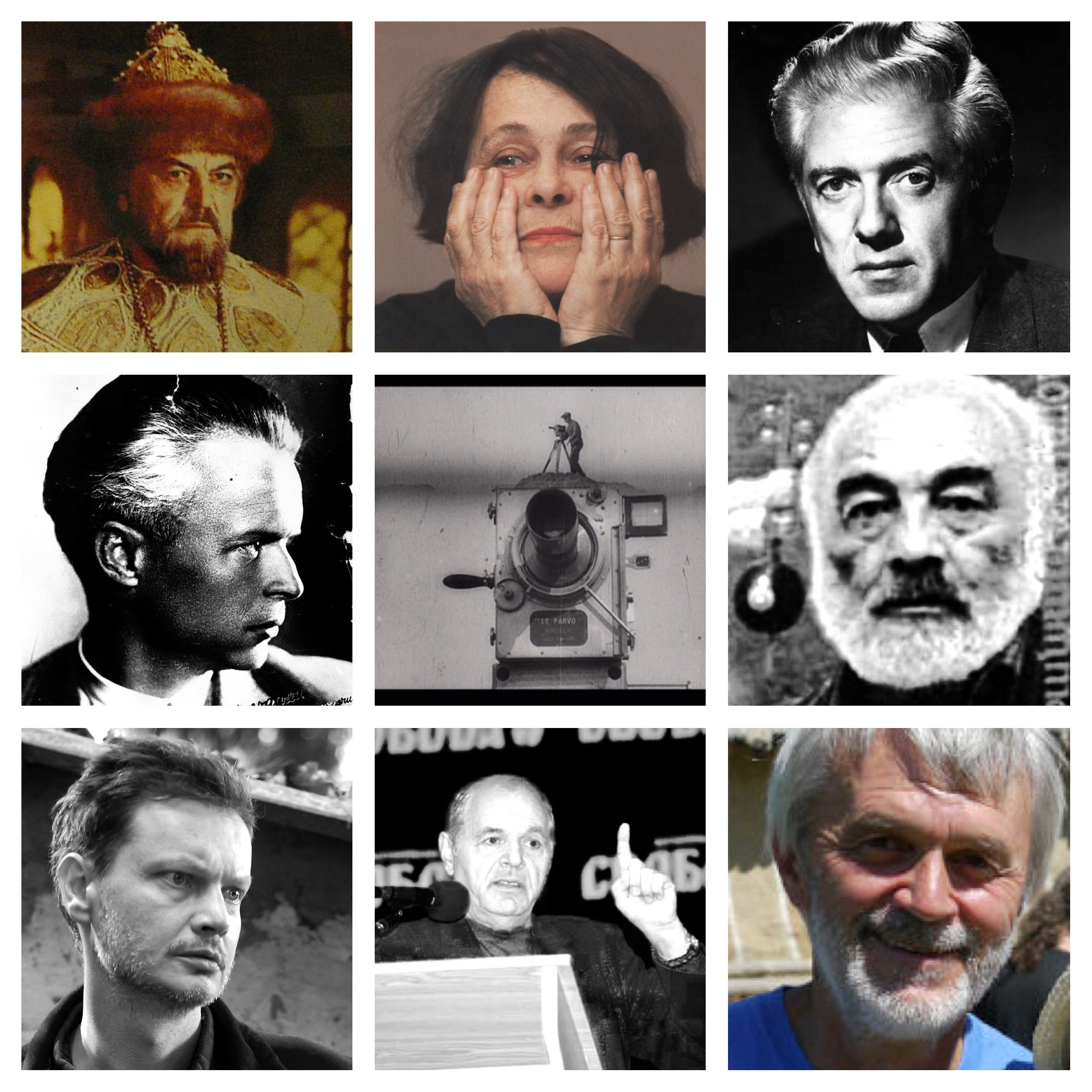 Gird_photo